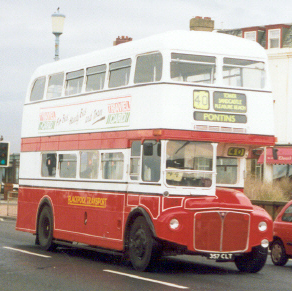 Blackpool Transport Routemaster bus 528, ex-RM1357 (reg. 357 CLT), pictured somewhere in Blackpool operating route 40 en-route to Pontin's Holiday Camp.